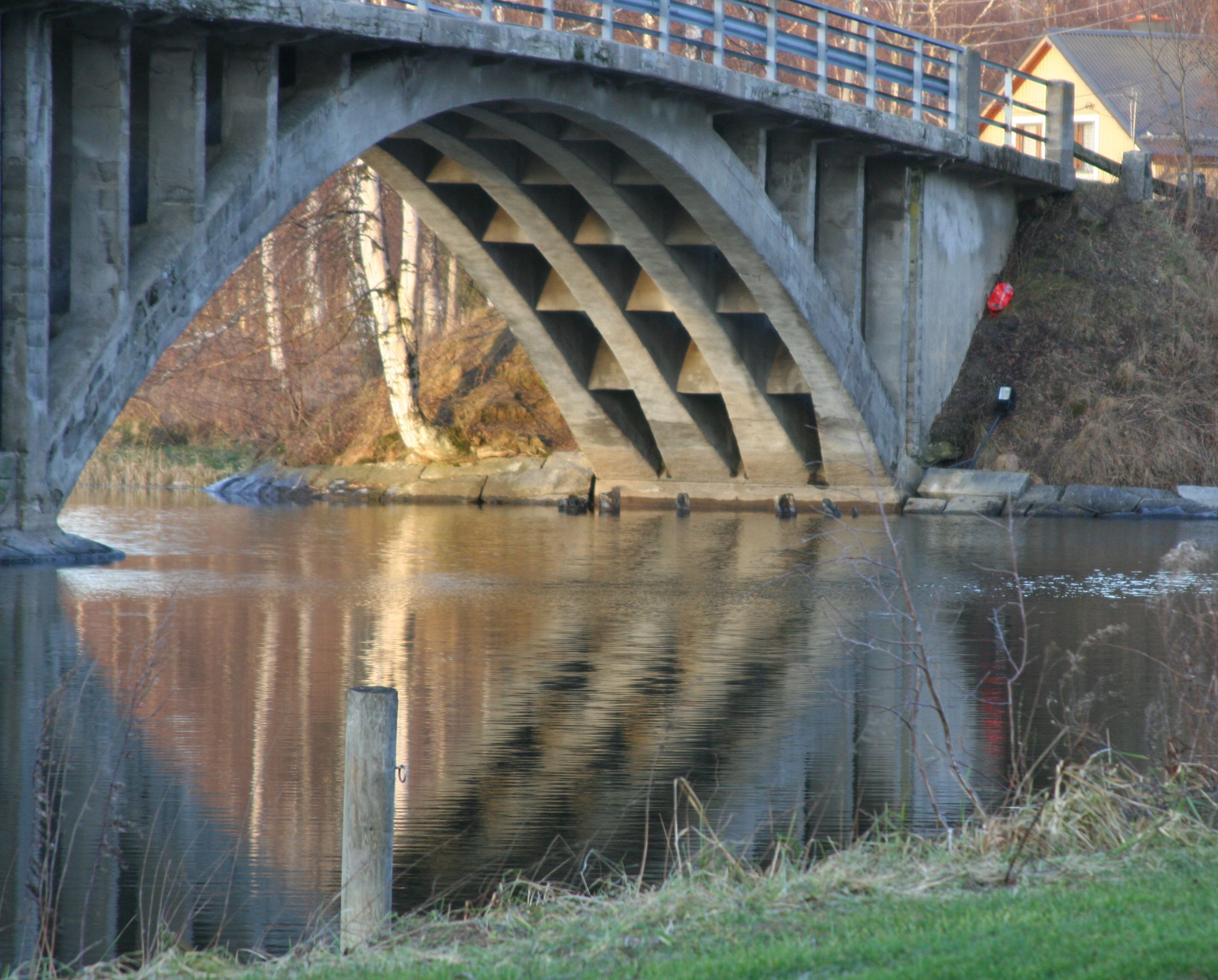 Alvettula museum bridge, Alvettula, Hauho, Hämeenlinna, Finland. Abutment. Bridge is made of hollow concrete building-blocs. Completed in 1916.